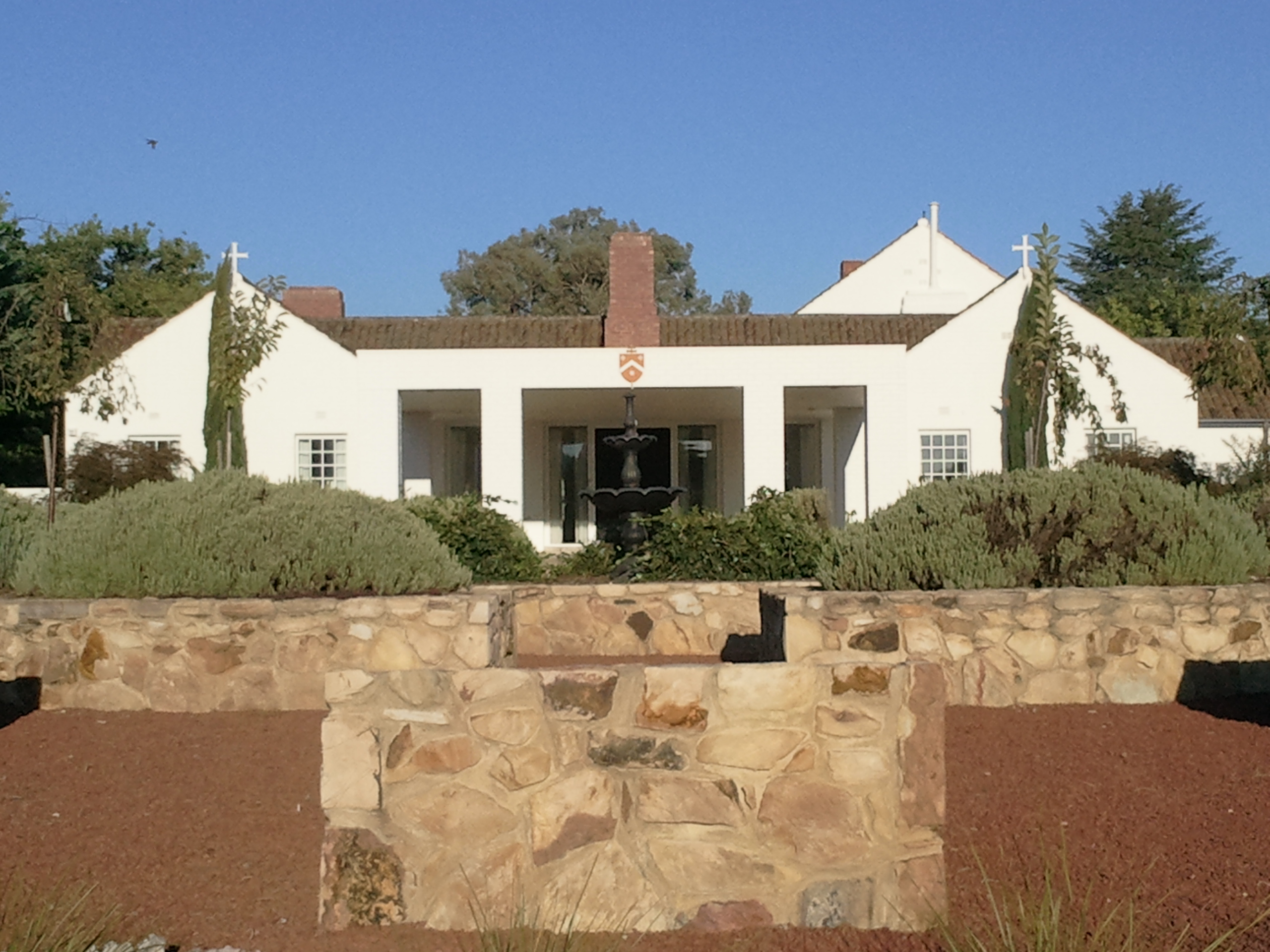 Official residence of the Archbishop of the Roman Catholic Archdiocese of Canberra and Goulburn. Plinth of Foundation Stone in foreground.